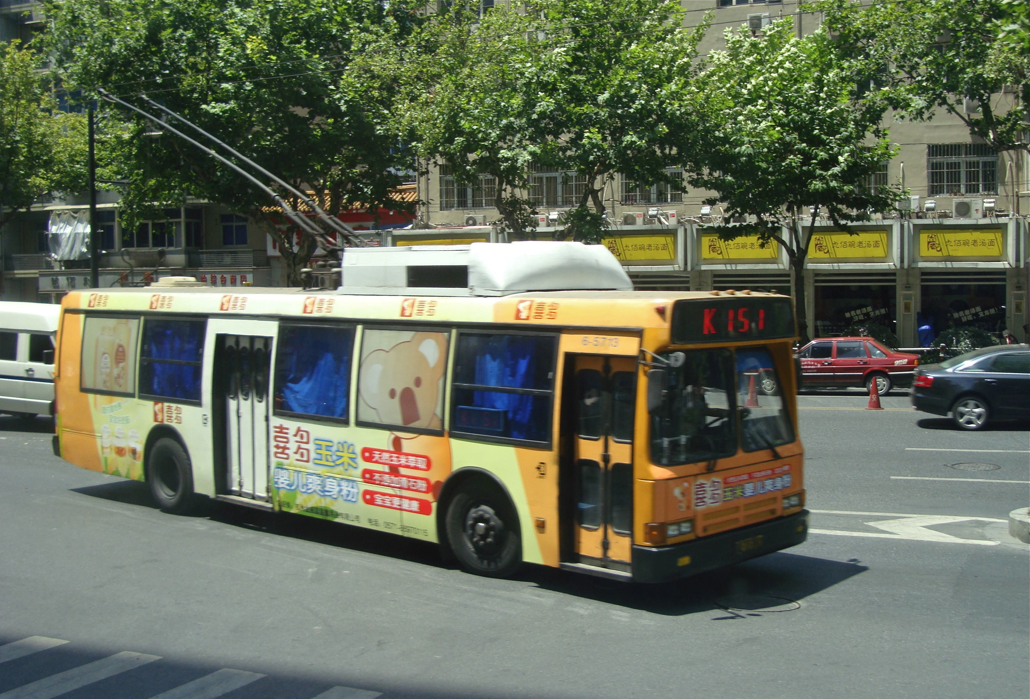 Hangzhou trolleybus 5713 on route 151. The K prefix indicates that the vehicle is air-conditioned. No. 5717 has a Flxible Metro-style body built under license by Changzhou Changjiang Bus Group and then fitted-out as a trolleybus by the similarly named Hangzhou Changjiang Bus Company (in Hangzhou), in 2001. It is one of 77 such vehicles, model CJWG110, all built for Hangzhou, between the late 1990s and May 2001.